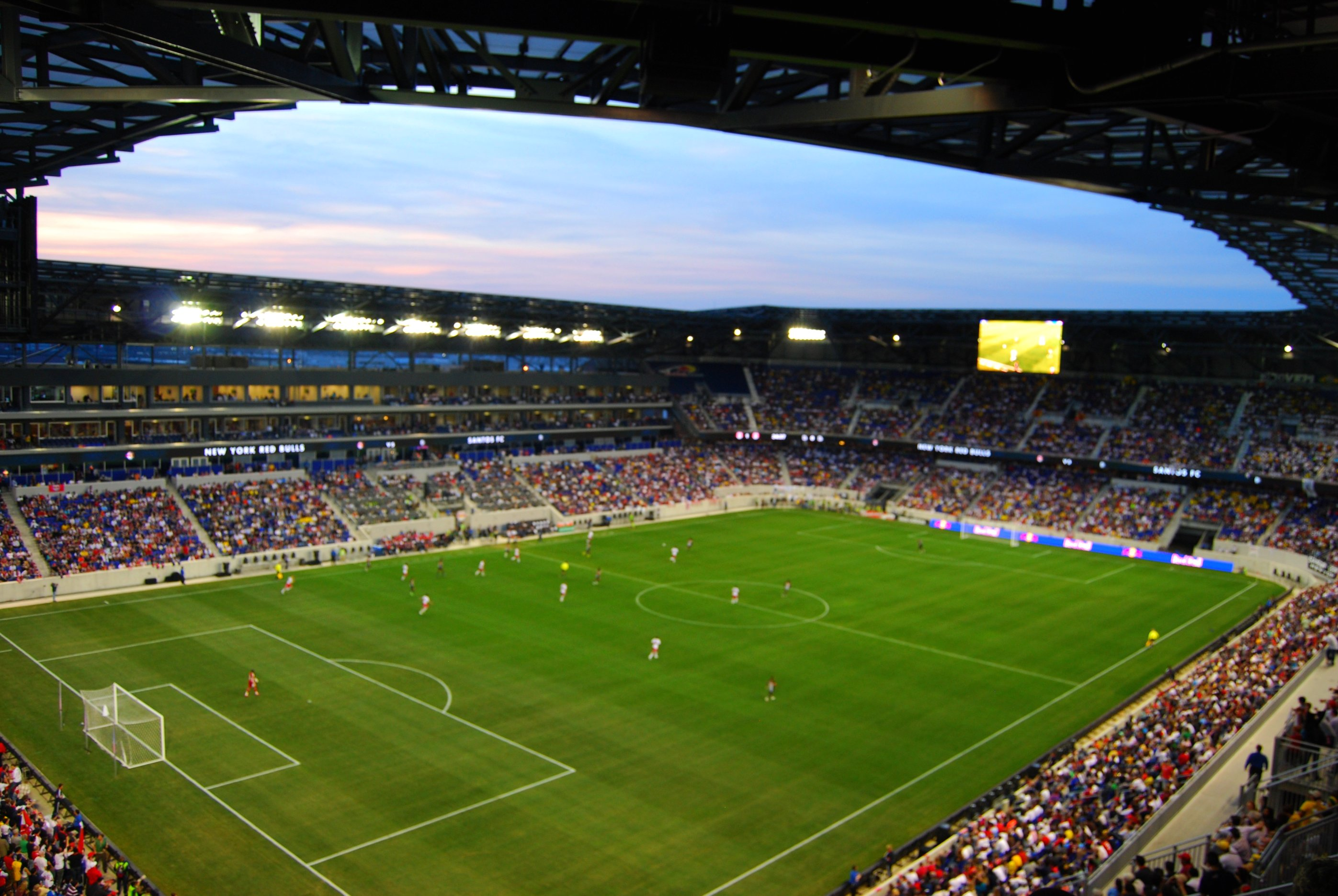 Full field view of Red Bull Arena.